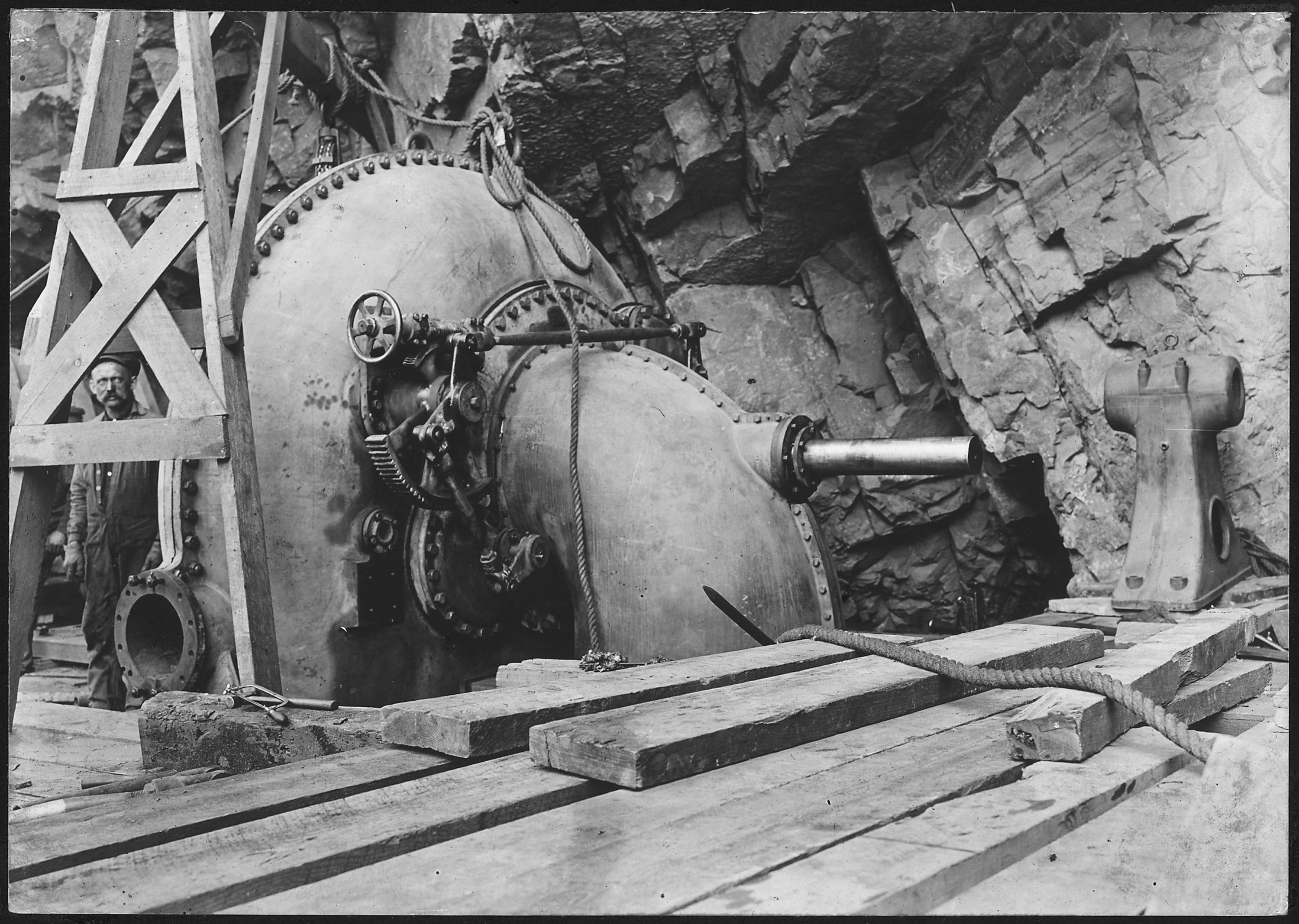 Scope and content: Photograph from Volume One of a series of photo albums documenting the construction of Roosevelt Dam, Stewart Dam, and other related work on the Salt River Project in Arizona.